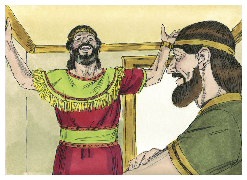 Biblical illustration of First Book of Chronicles Chapter 17